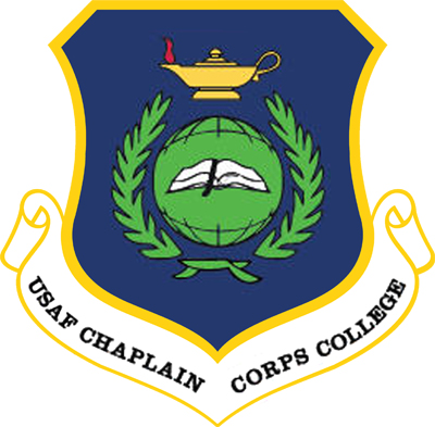 Seal of the USAF Chaplain Corps College, located on the campus of the Armed Forces Chaplaincy Center, Fort Jackson, Columbia, South Carolina.